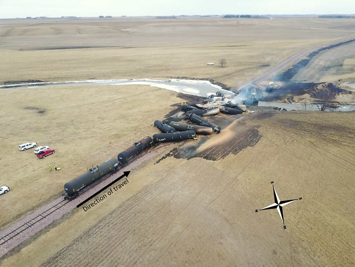 An aerial photograph of the site of the March 10, 2017, Union Pacific Railroad train derailment near Graettinger, Iowa. The train consisted of 98 tank cars loaded with ethanol, three locomotives and two buffer cars filled with sand. Twenty of the 98 tank cars derailed, 14 of the 20 released about 322,000 gallons of undenatured ethanol, fueling a post-accident fire that burned for more than 36 hours. (NTSB photo)